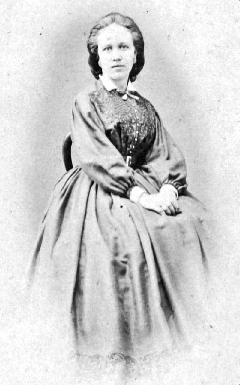 Swedish physician Charlotte Yhlen (1839-1919)